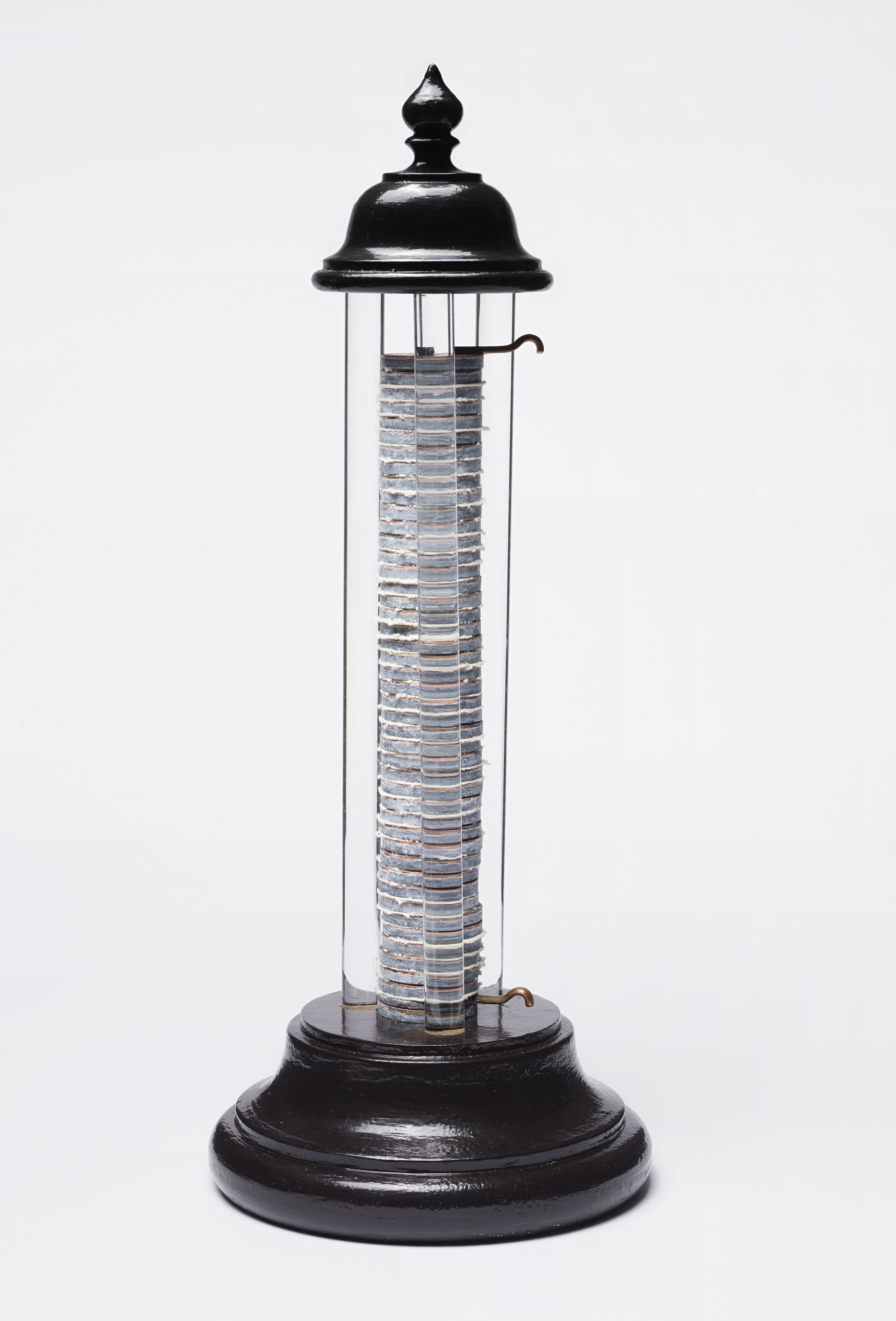 Reproduction of Voltaic Pile Modern reproduction of the first electric battery invented by Alessandro Volta in 1800. Base and top are wooden. Between the base and top rests a stack or pile of 46 copper-zinc cells. Electrodes used to tranfer the electric current are on the top and bottom cells. Fabric is placed between each cell. The vertical structure is supported by four dowels.